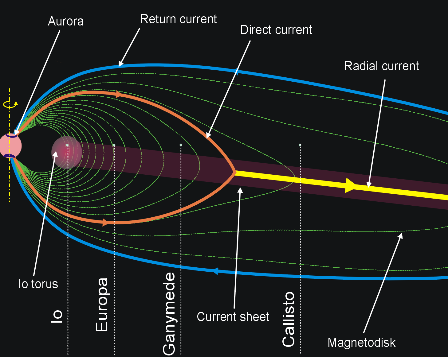 The image shows the magnetic field of Jupiter based on a realistic model[1] and co–rotation enforcing currents.[2] Positions of the Galilean moons are also shown. ↑ Edwards, T.M.; Bunce, E.J.; Cowley, S.W.H. (2001). "A note on the vector potential of Connerney et al.’s model of the equatorial current sheet in Jupiter’s magnetosphere". Planetary and Space Science 49: 1115–1123. ↑ Cowley, S.W.H.; Bunce, E.J. (2001). "Origin of the main auroral oval in Jupiter’s coupled magnetosphere–ionosphere system". Planetary and Space Sciences 49: 1067–66.